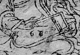 Tibetan sandabacus from a blockprint of the Vaidurya dkar po (1685)